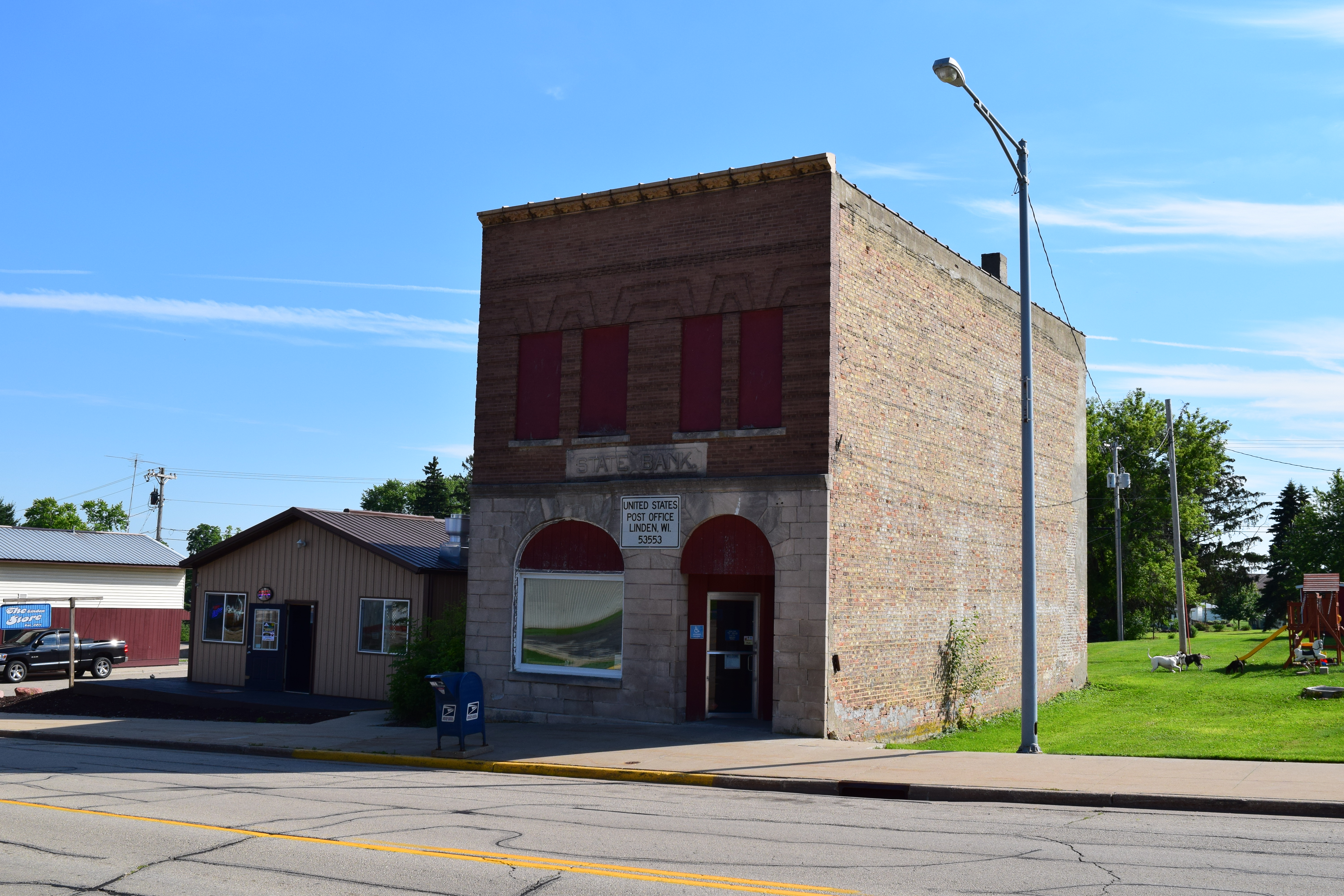 Post office in a historic bank building in Linden, Wisconsin.